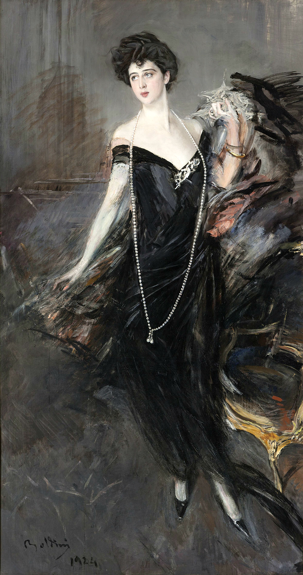 Donna Franca Florio; La baronesa Franca Florio Jacona de San Giuliano